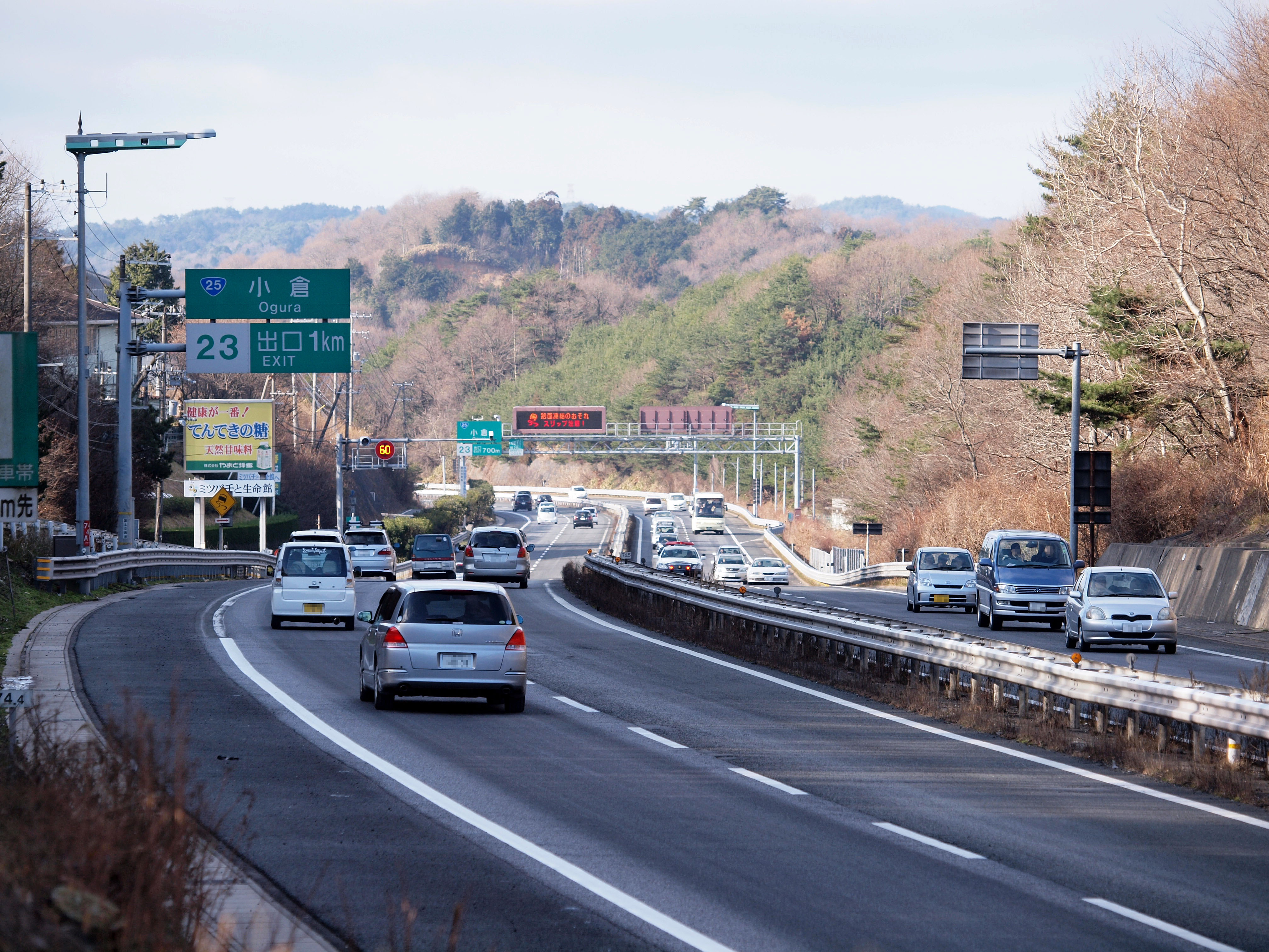 Meihan Highway in Yamazoe, Nara, Japan